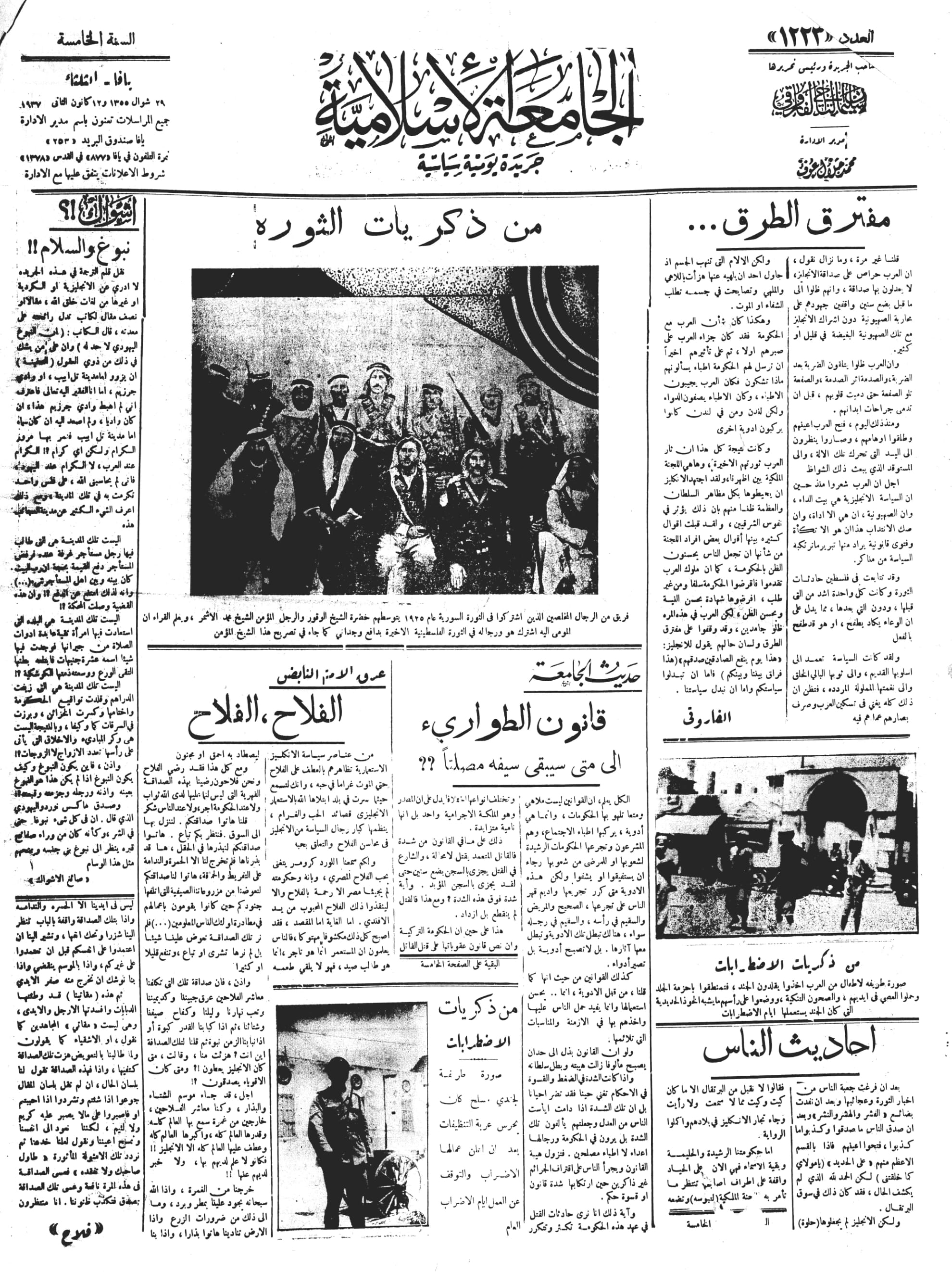 Palestinian newspaper